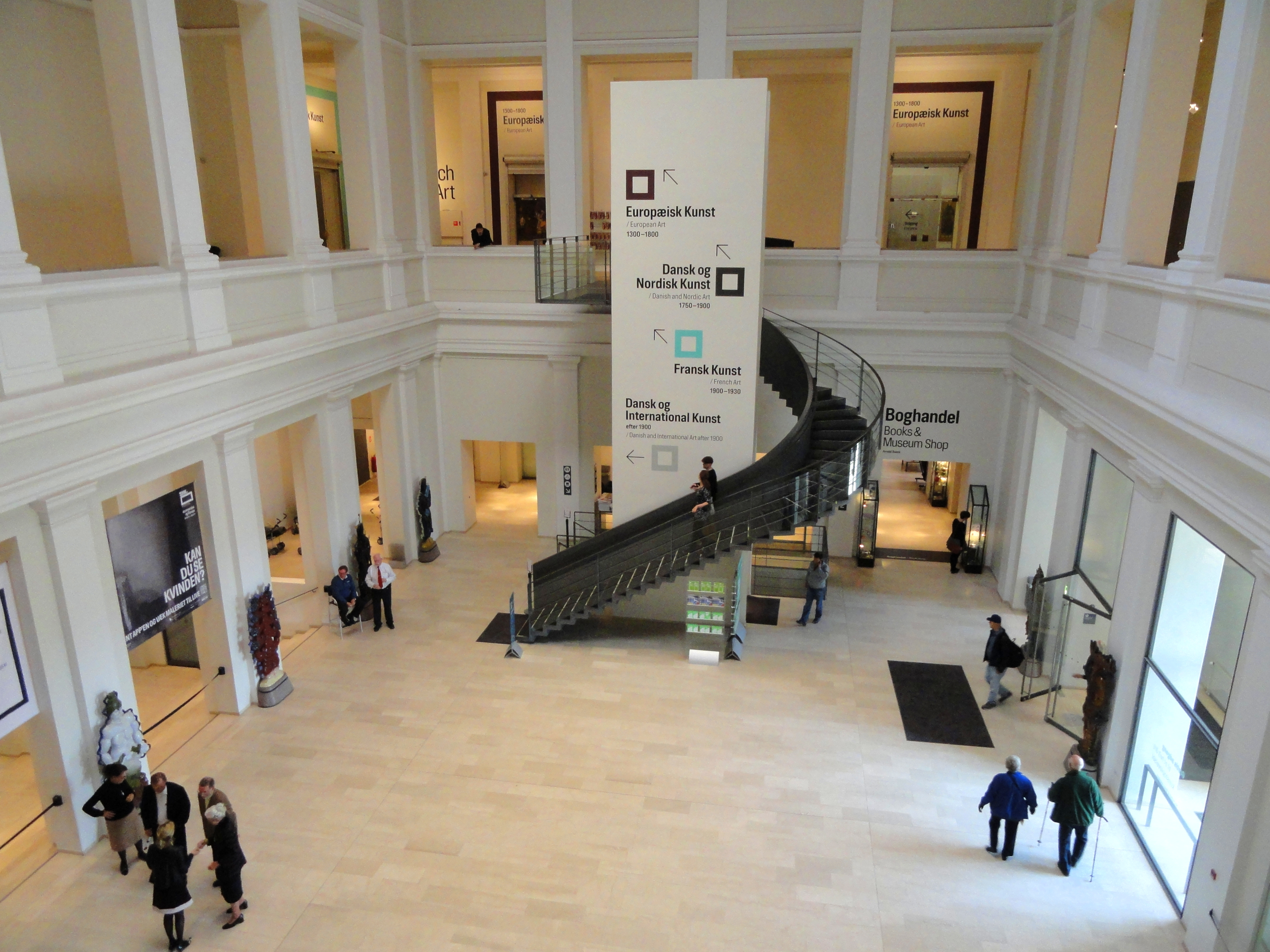 Statens Museum for Kunst, Copenhagen, Denmark. Photography was permitted without restriction of all artworks old enough to be in the public domain.